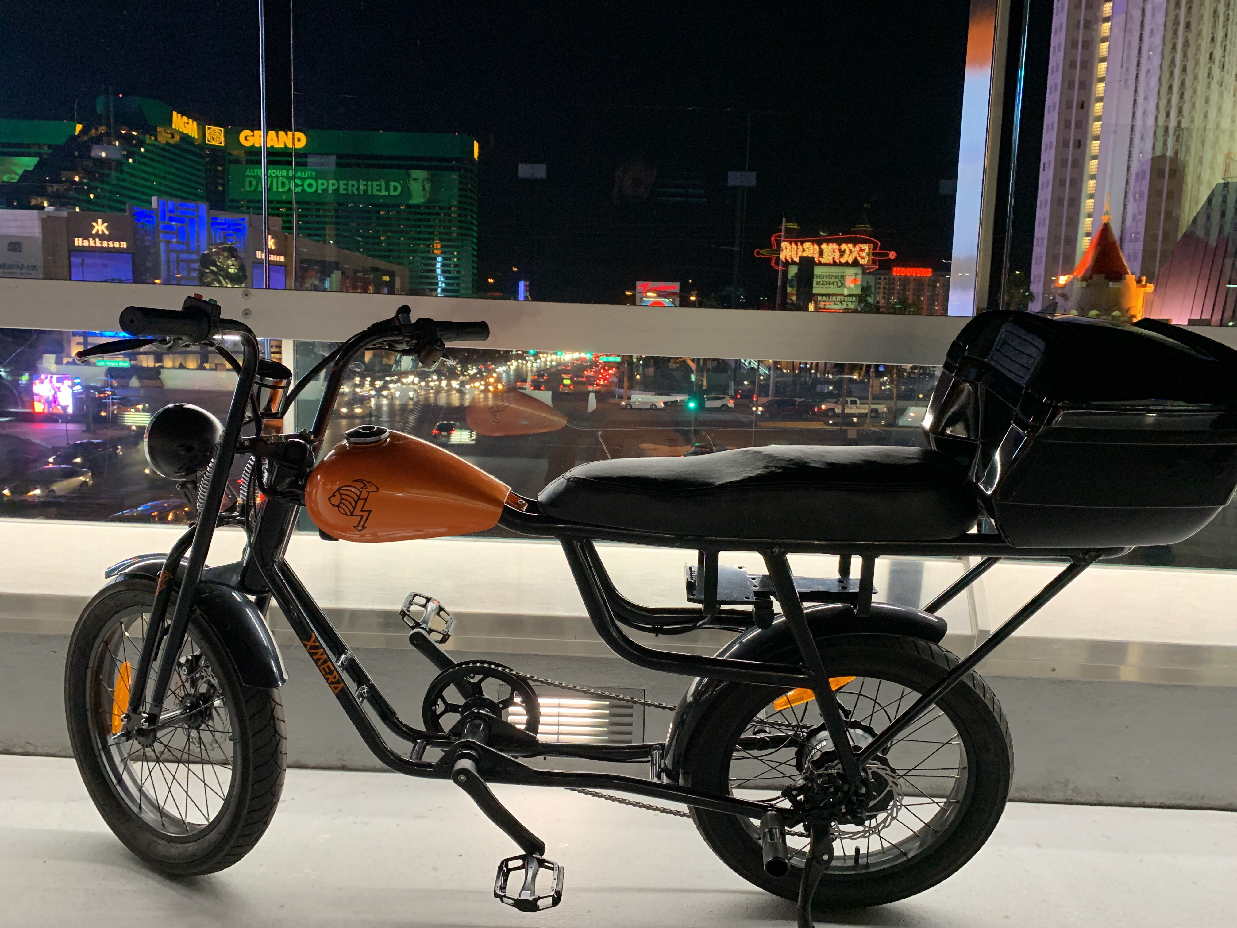 Xmera in Las Vegas 2019